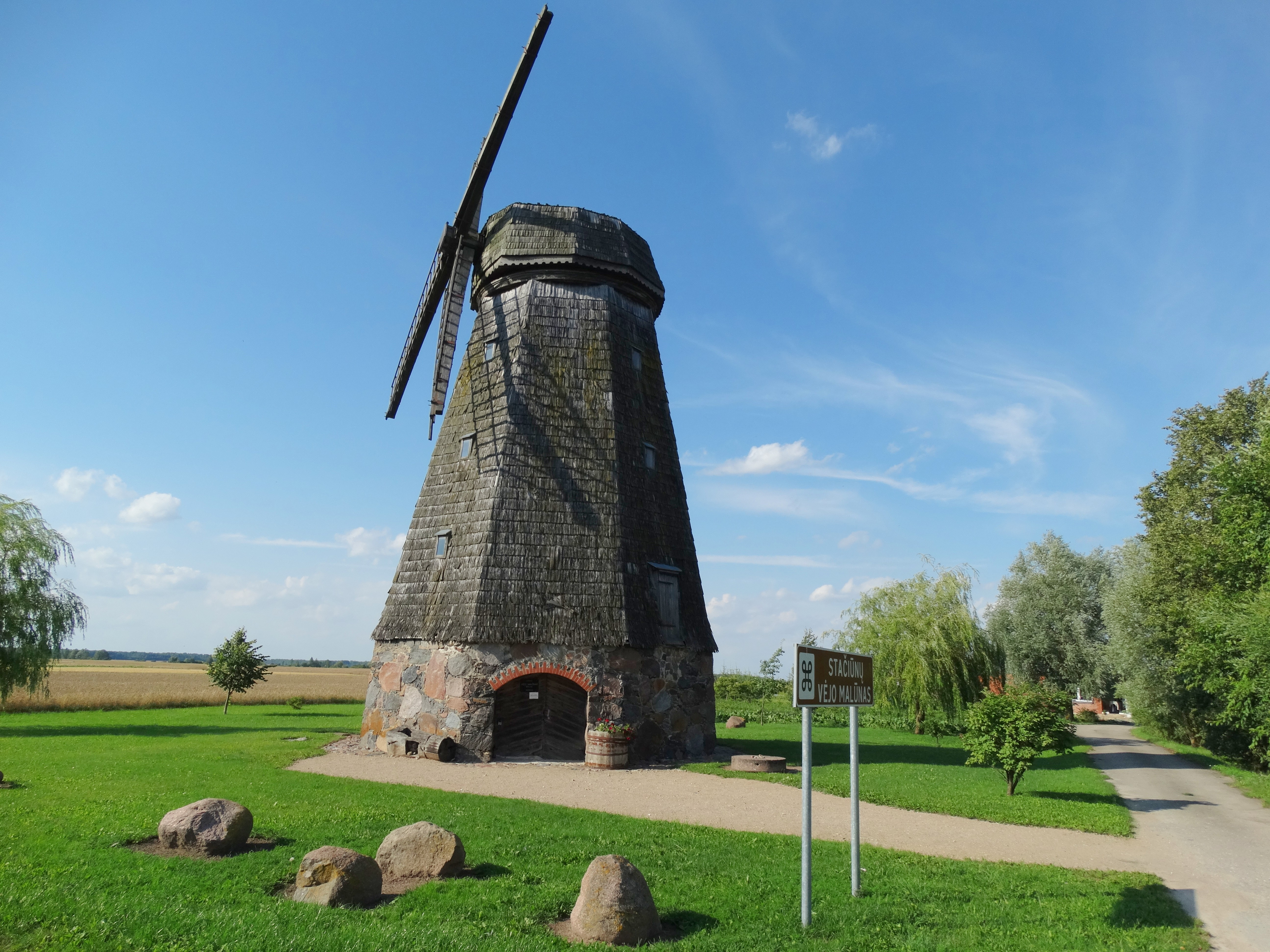 Windmill, Stačiūnai, Pakruojis District, Lithuania